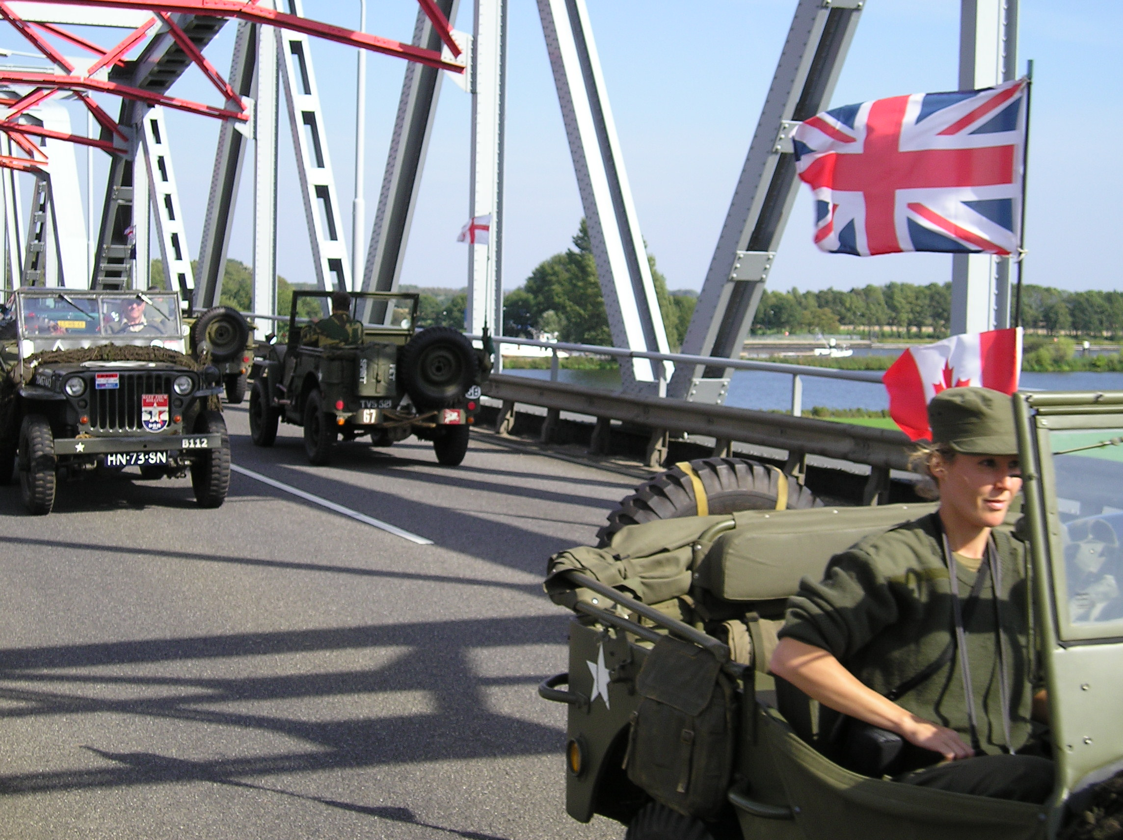 Commemoration Operation Market-Garden at bridge Grave, the Netherlands